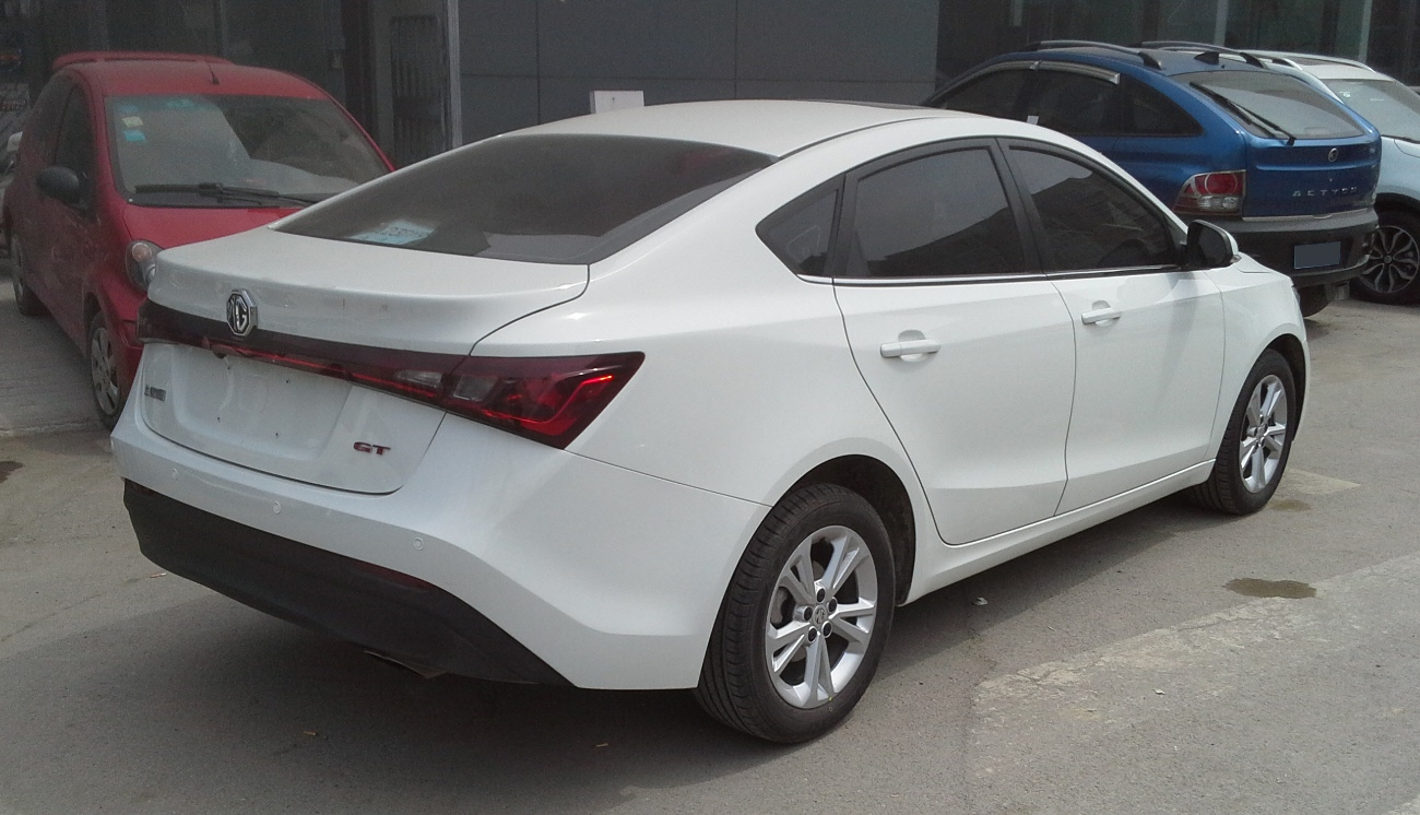 MG GT photographed in Zhengzhou, Henan province, China.